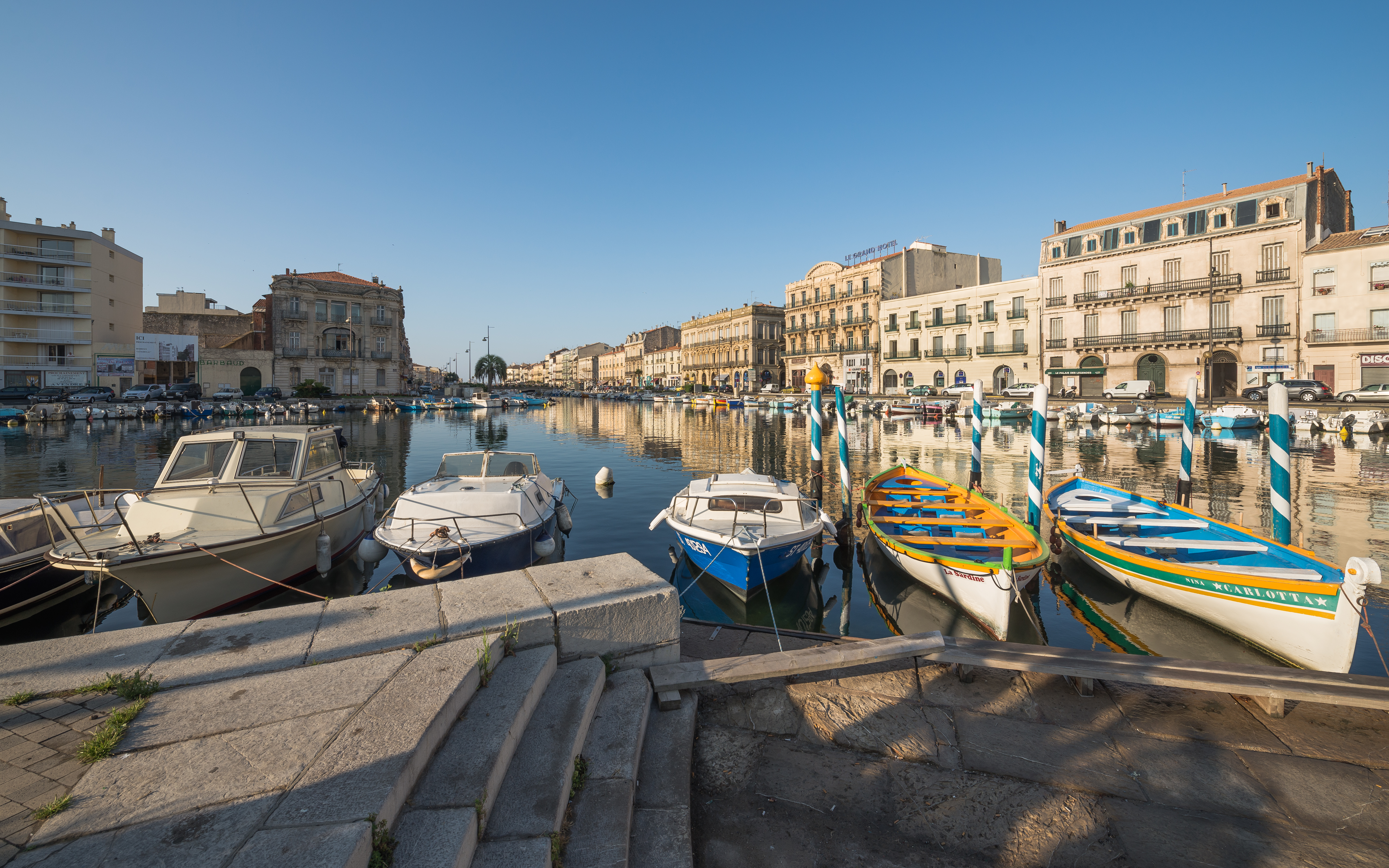 The Maréchal de Lattre de Tassigny Embankment and the Canal of La Peyrade from the Louis Pasteur Embankment. Sète, Hérault, France.